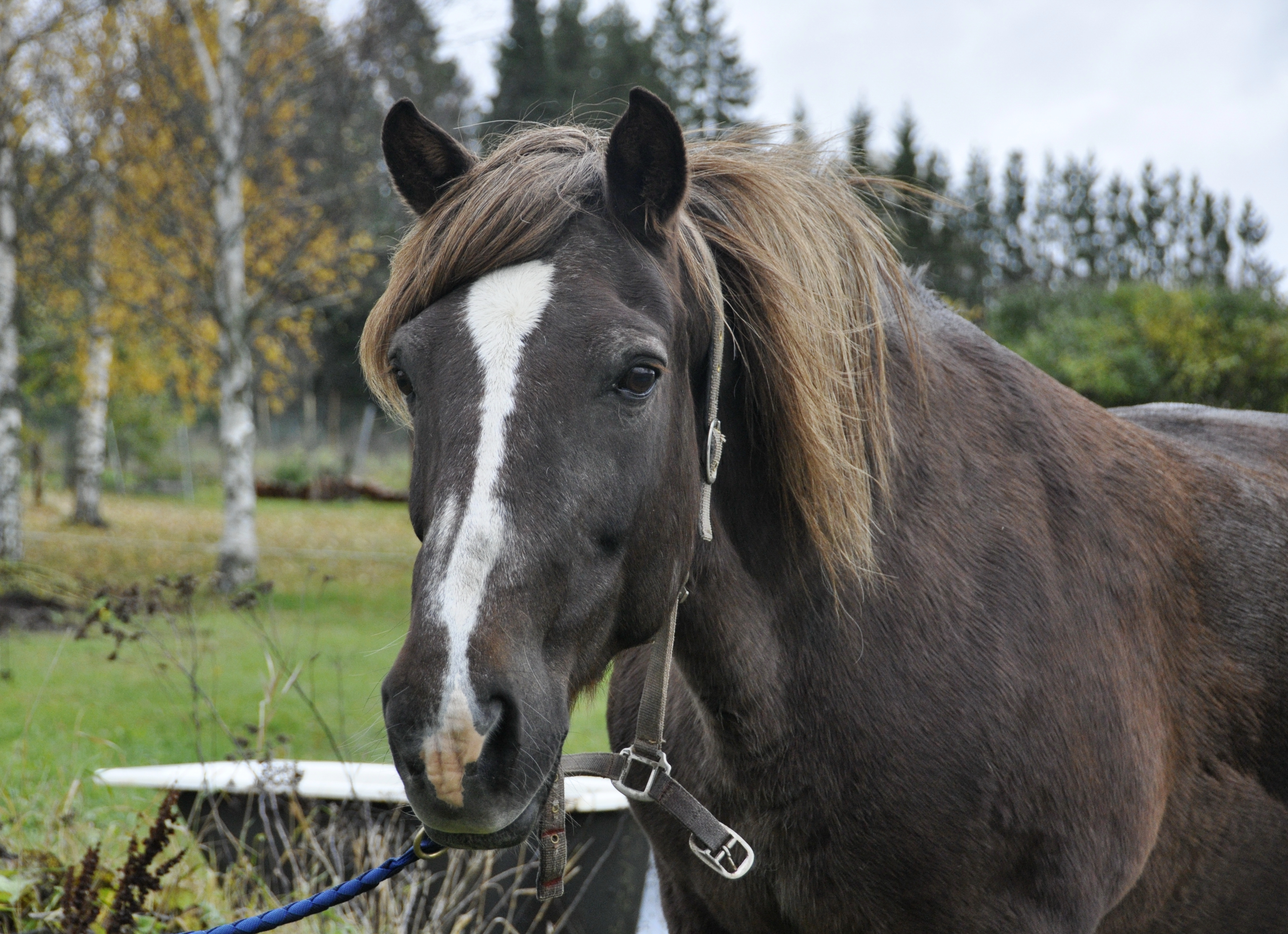 21-year-old Finnhorse mare, with some greying on the face.